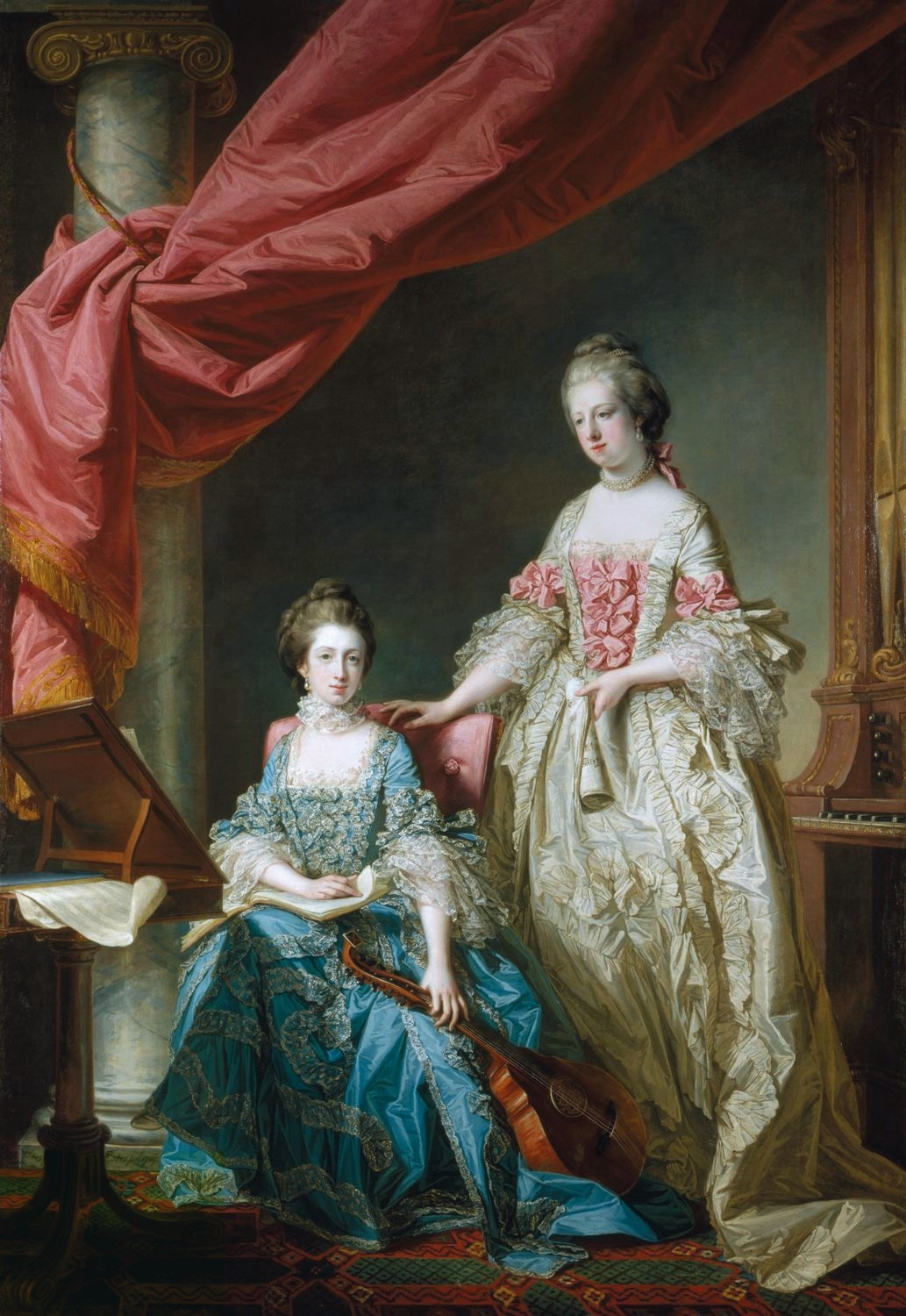 Portrait of George III’s two youngest sisters: Princess Louisa (seated left) at 17 years, and Princess Caroline (standing) at 16 years.